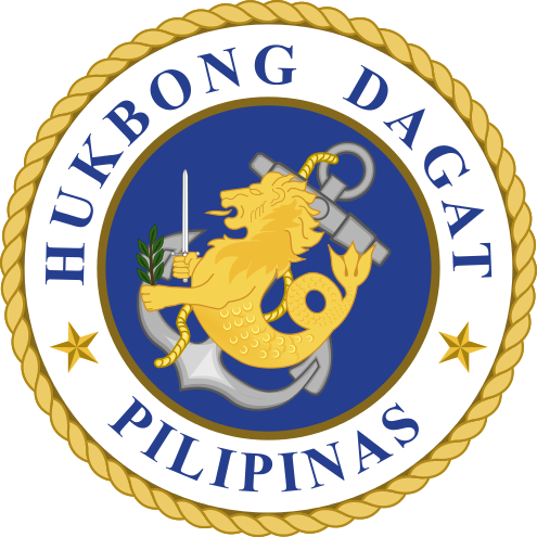 Seal of the Philippine Navy